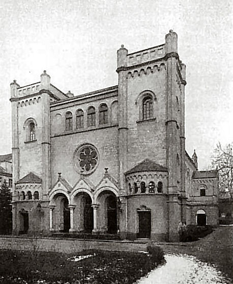 Synagogue of Liegnitz / Legnica built in 1847 . destroyed by the Nazis during th Kristalnacht in 1938